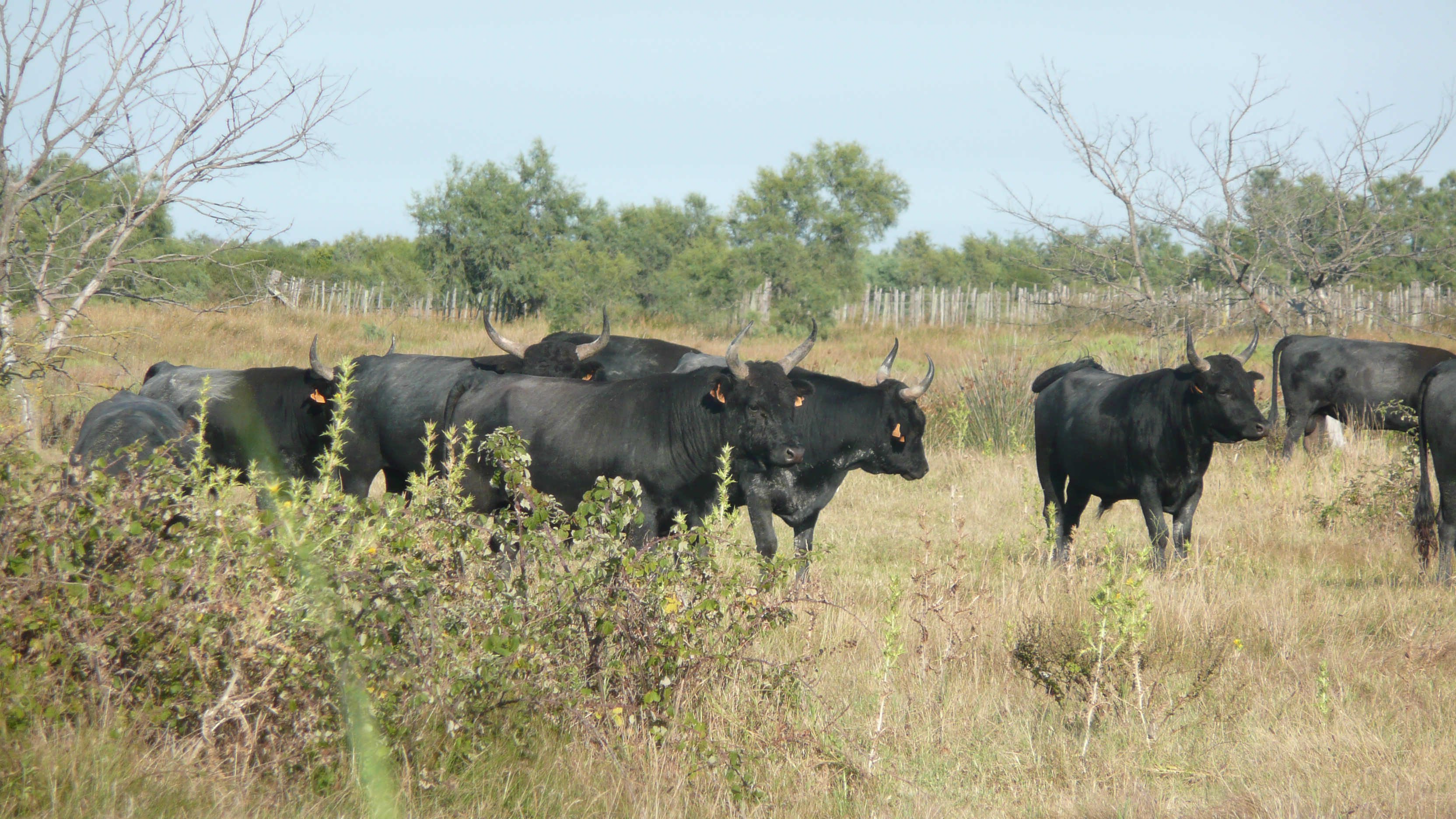 Black cattles in the Camargue